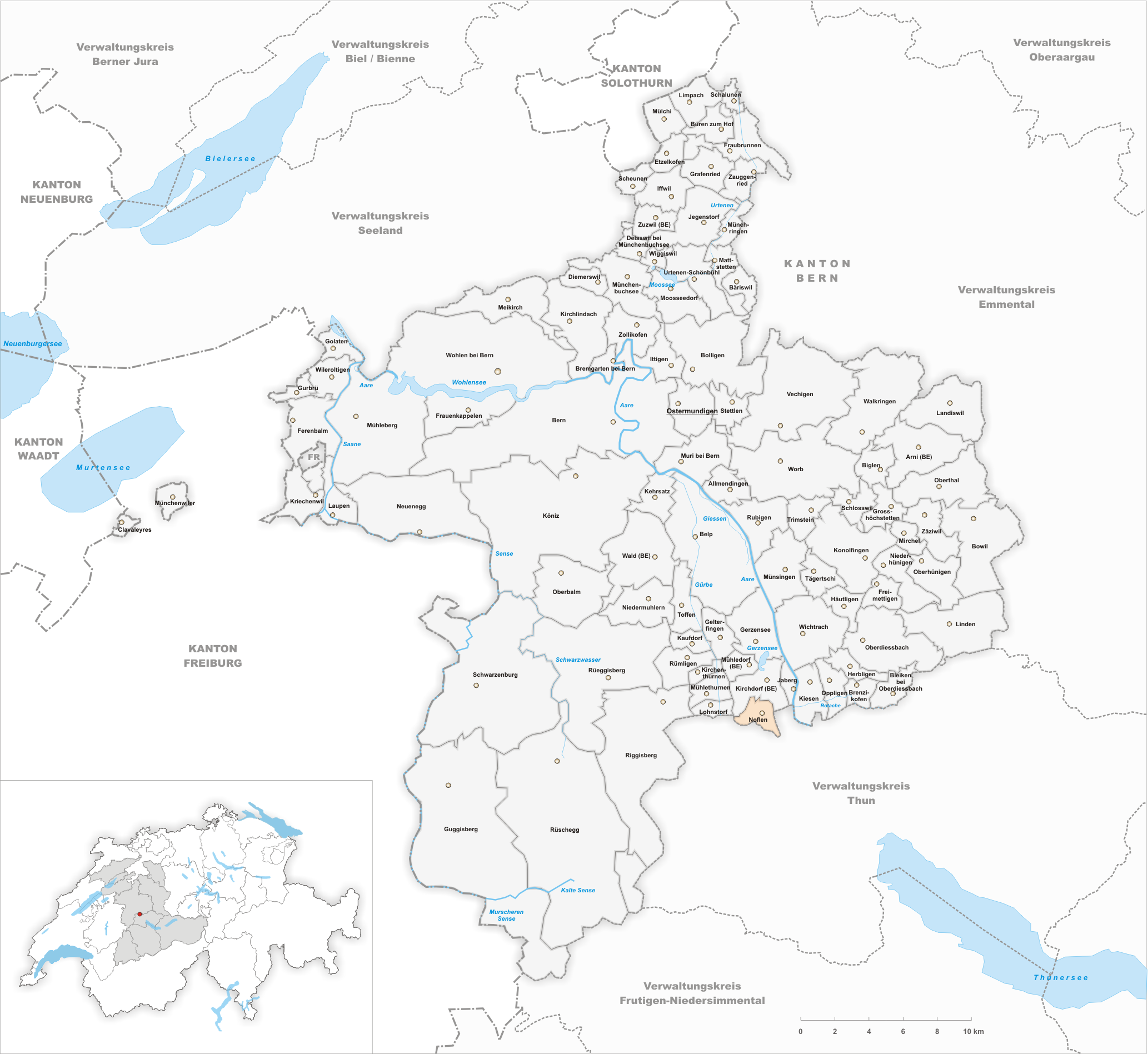 Municipality Noflen